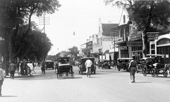 Apotek on right hand side of photo was still extant on Jalan Malioboro in the 1970's, trees on left are no longer there